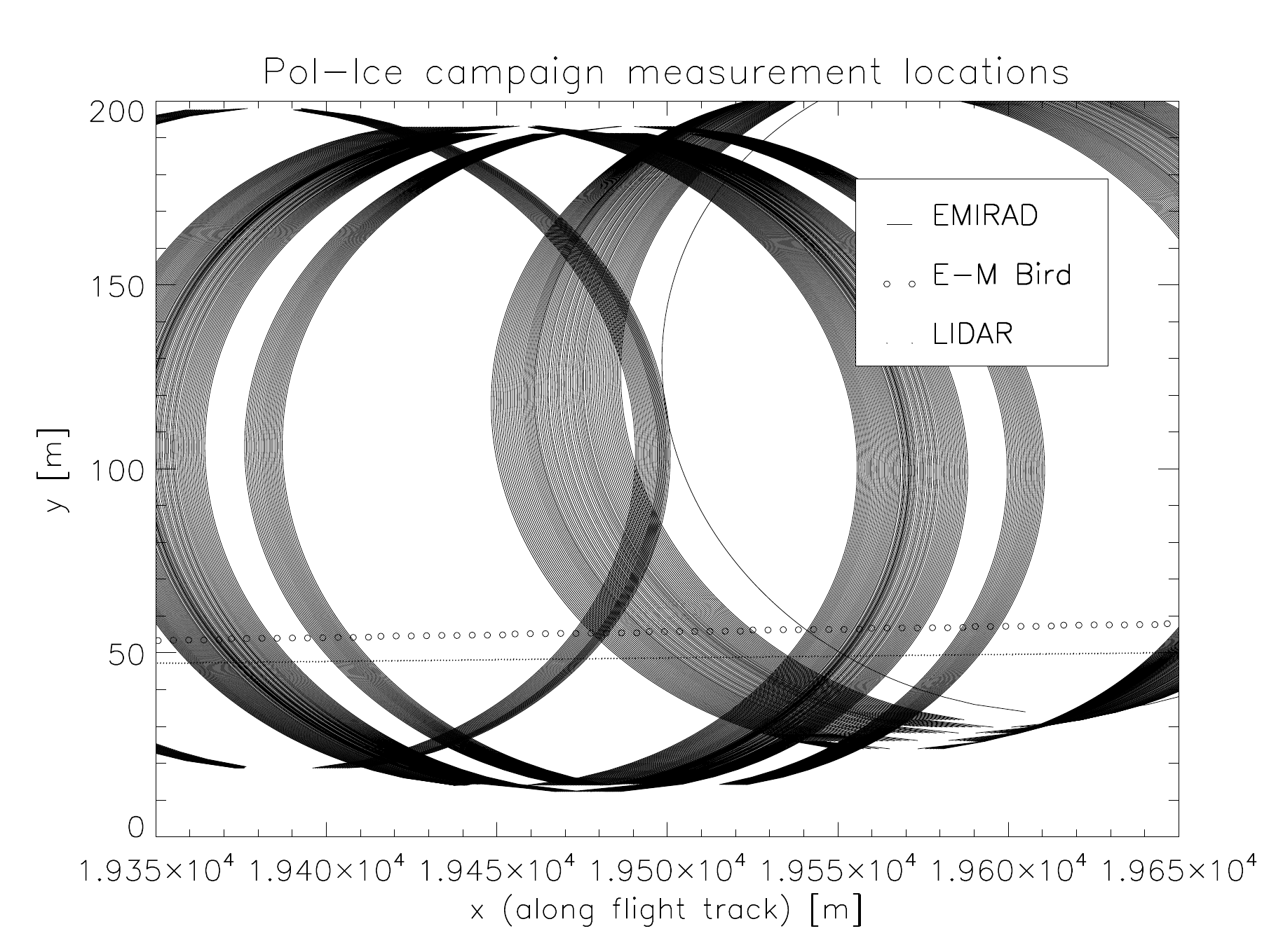 Measurement locations and footprints of three different instruments used in the Pol-Ice 2007 campaign. Reference: IEEE Trans. on Geoscience and Remote Sensing (2011) 49 (2): 612-627.